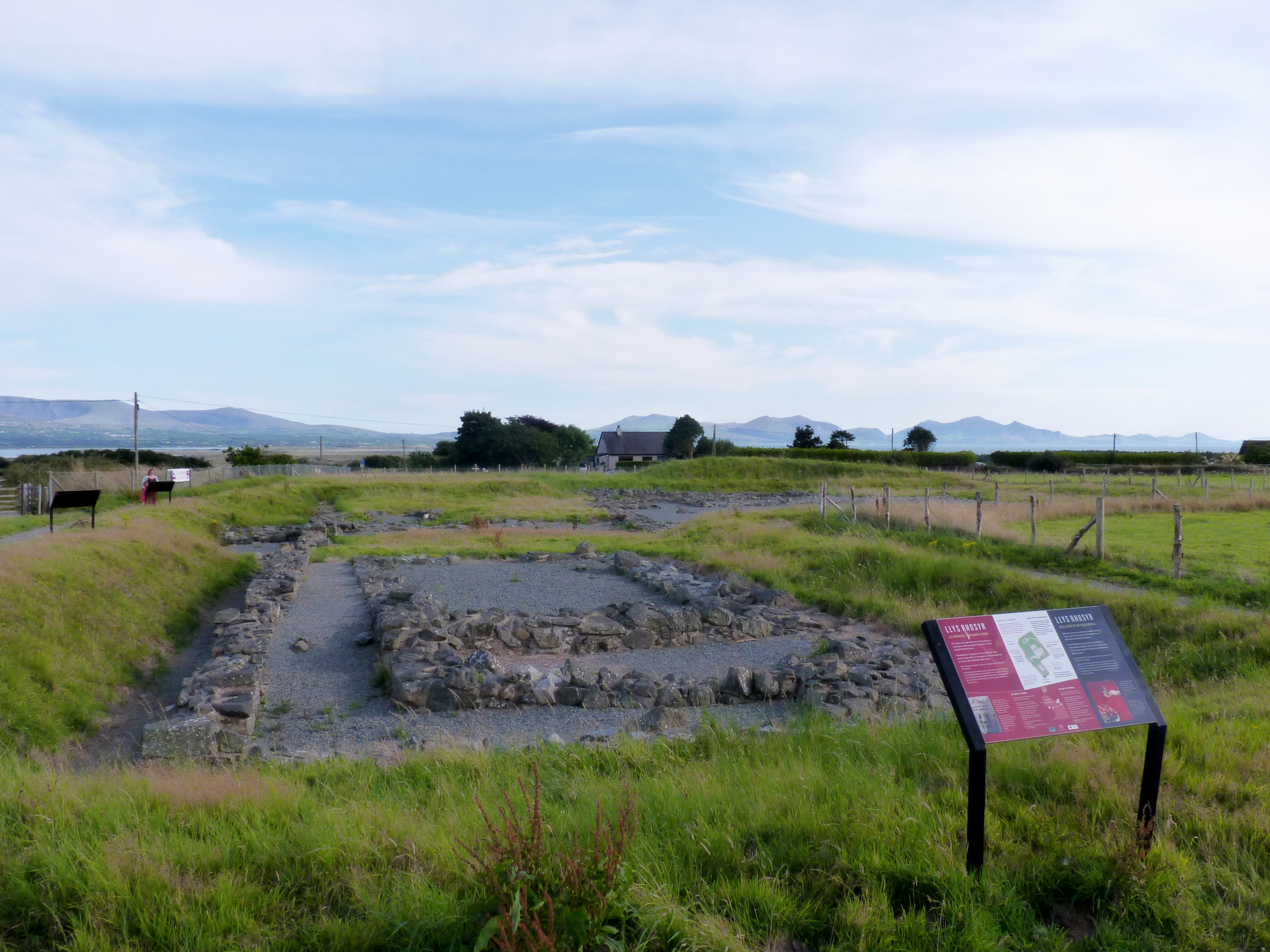 Llys Rhosyr, Great meeting hall of the court of the princes of Gwynedd.